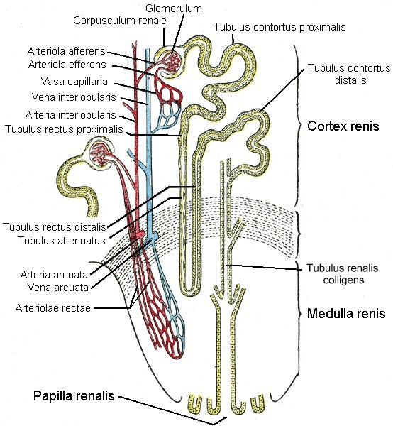 Schematic drawing of the anatomy of the kidney modified from Gray with official anatomical (Latin) terms by Uwe Gille